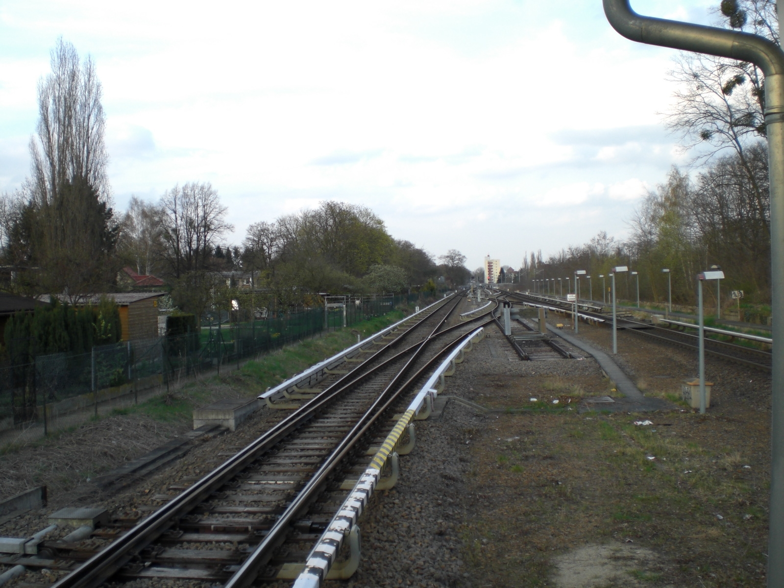 yard at Berlin-Lichterfelde S-Bahn station